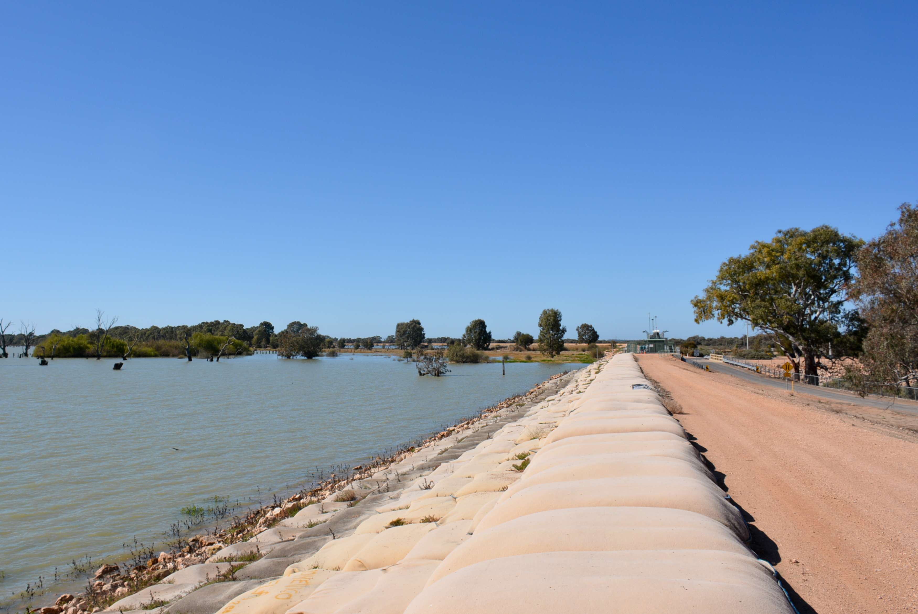 The embankment created in the 1920s to regulate water from Lake Victoria reentering the Murray River.